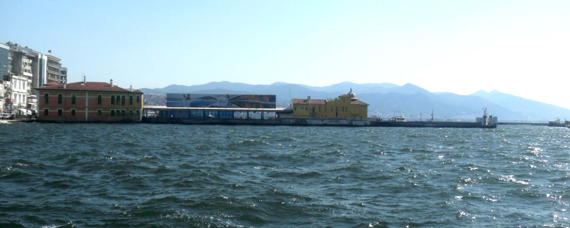 Pasaport Terminal, İzmir Turkey from the East